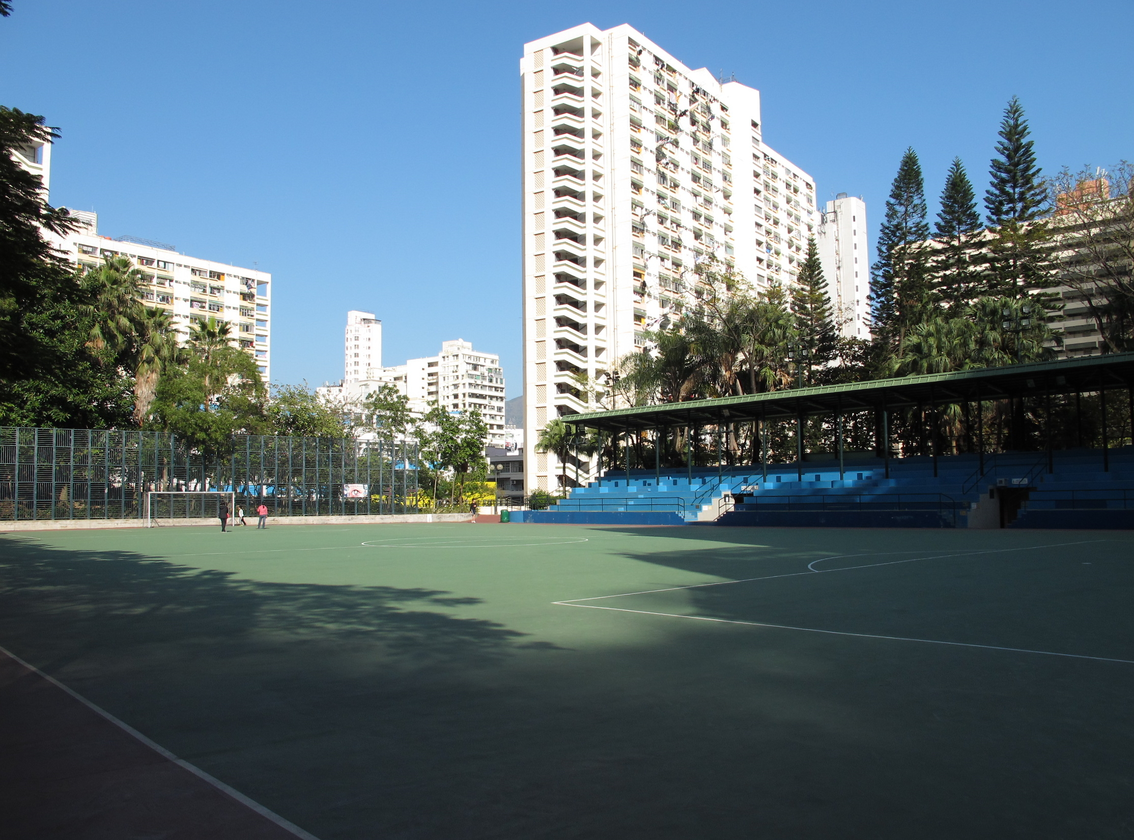 Ko Shan Road Park Hard-surfaced Soccer Pitch